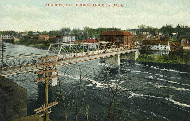 Bridge and City Hall, Augusta, ME; from a 1909 postcard.